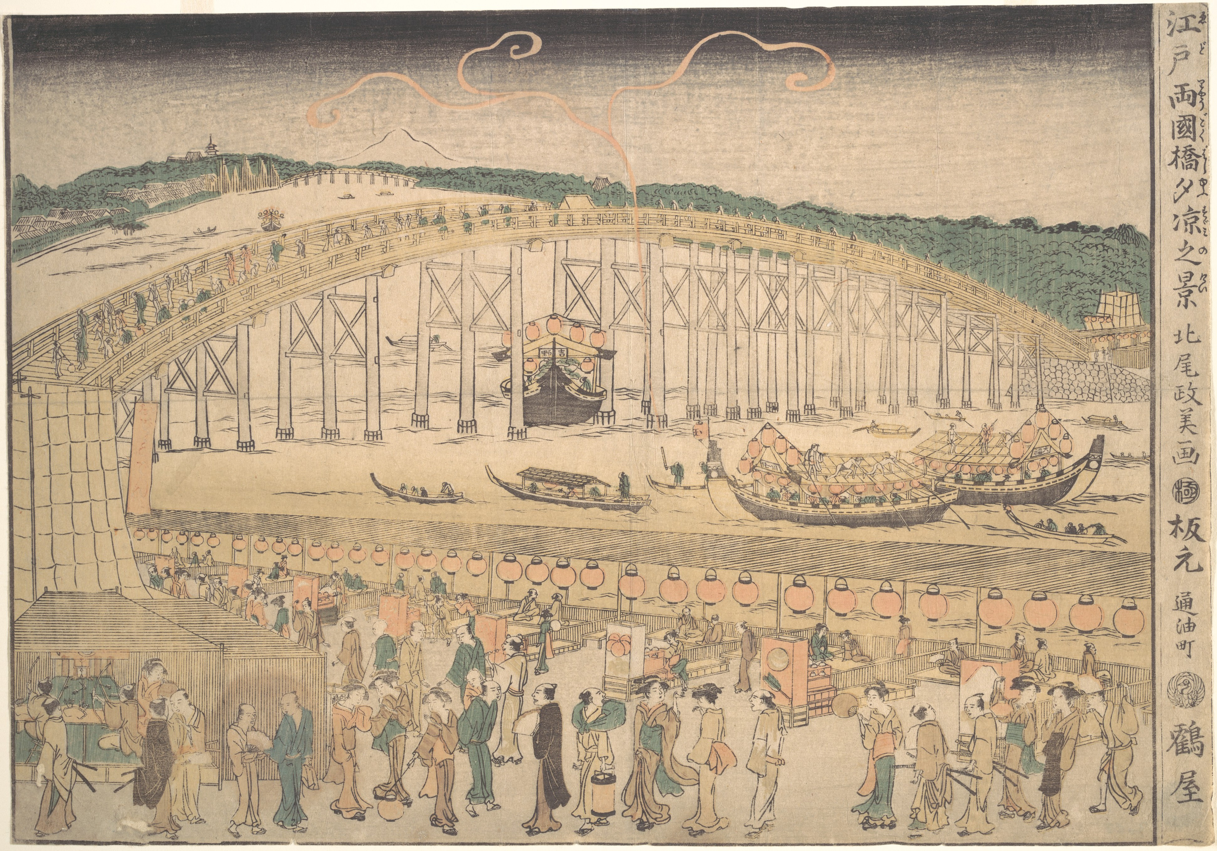 Ryogoku Bridge